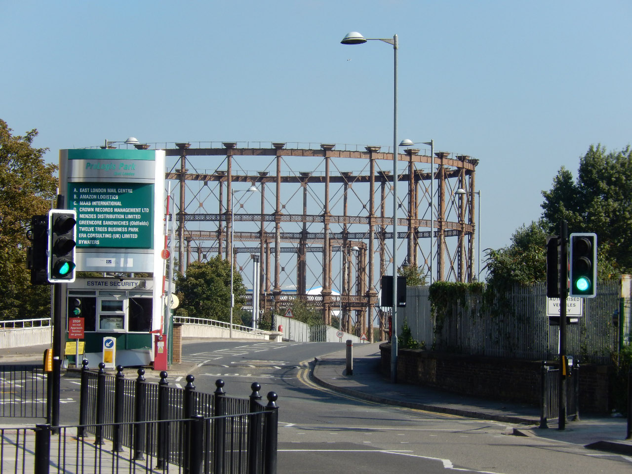 Entrance to Prologis Park